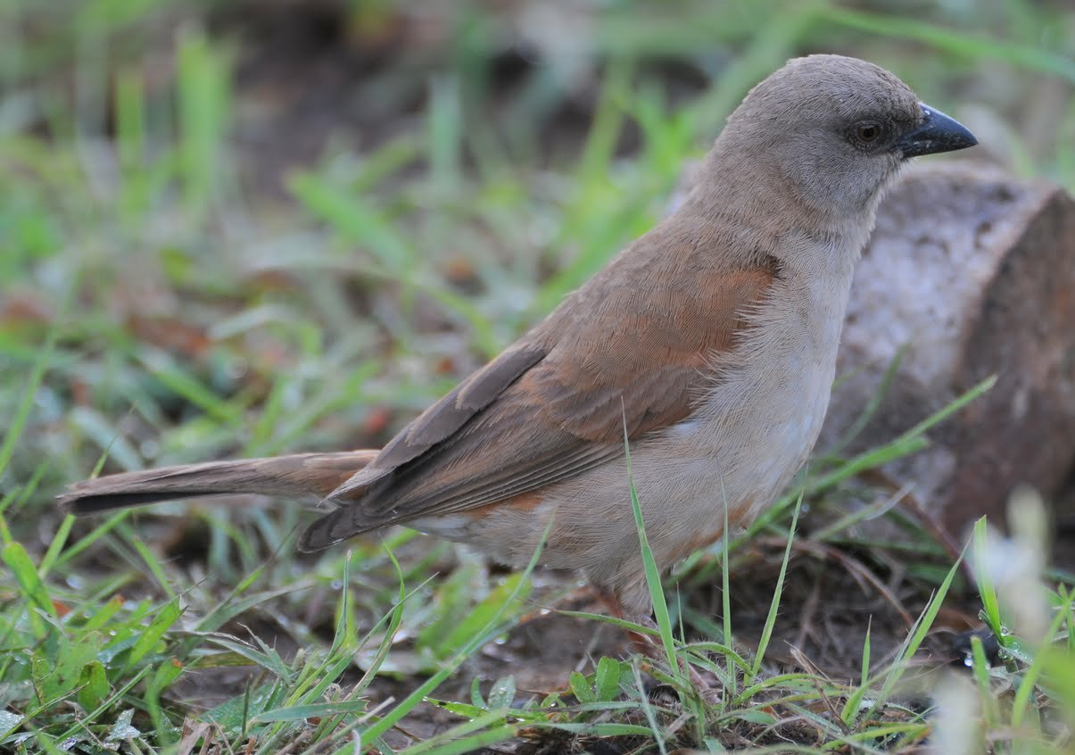 A Grey-headed Sparrow in Rwanda